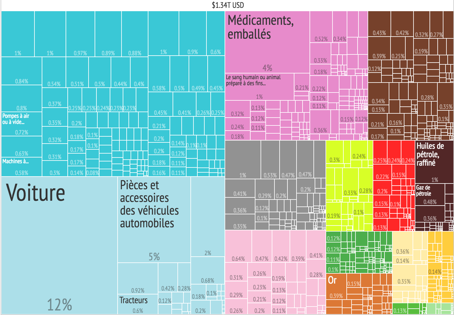 2014 produits allemagne exportation treemap